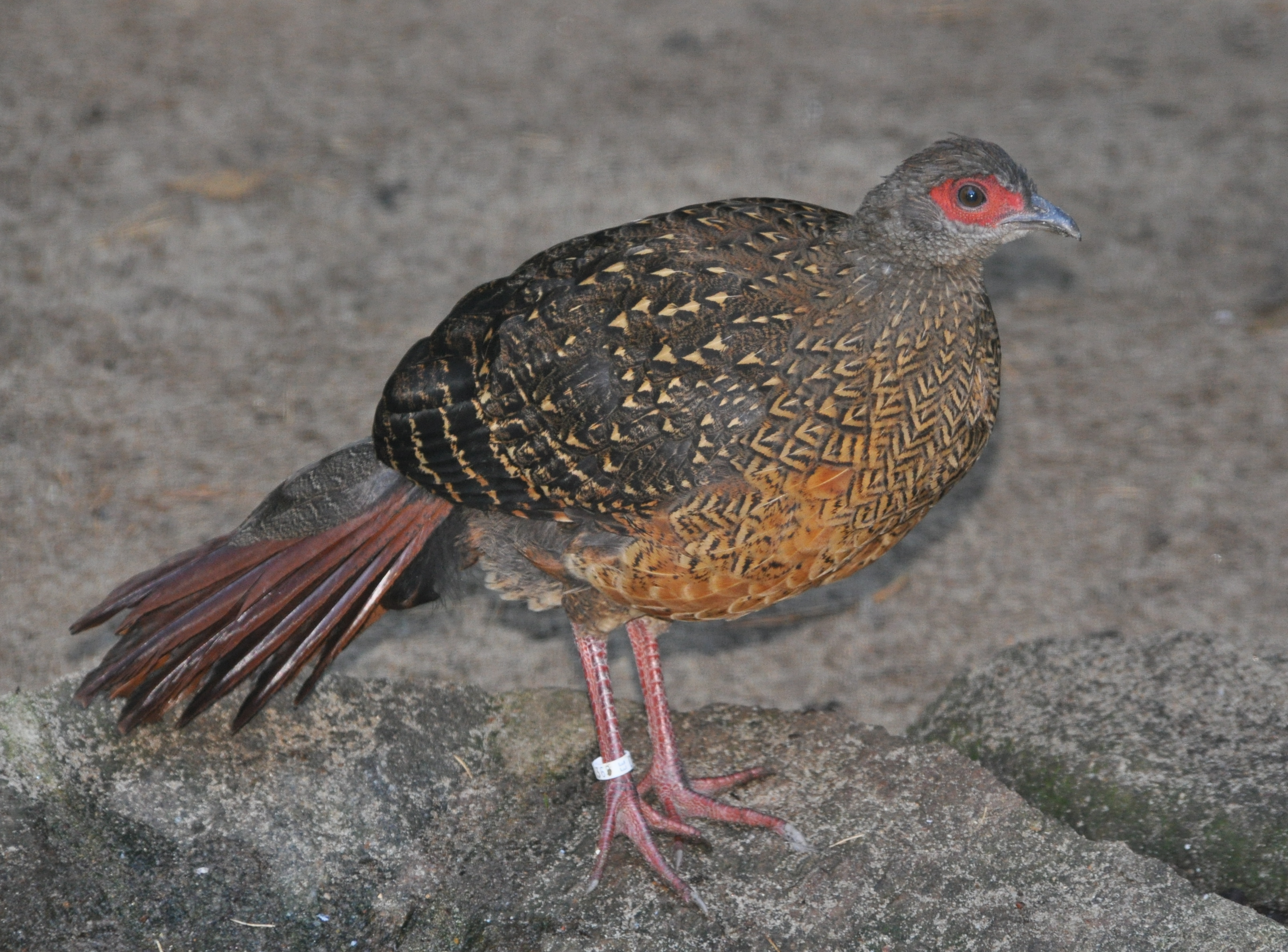 Swinhoe's Pheasant (Lophura swinhoii) in the Walsrode Bird Park, Germany.